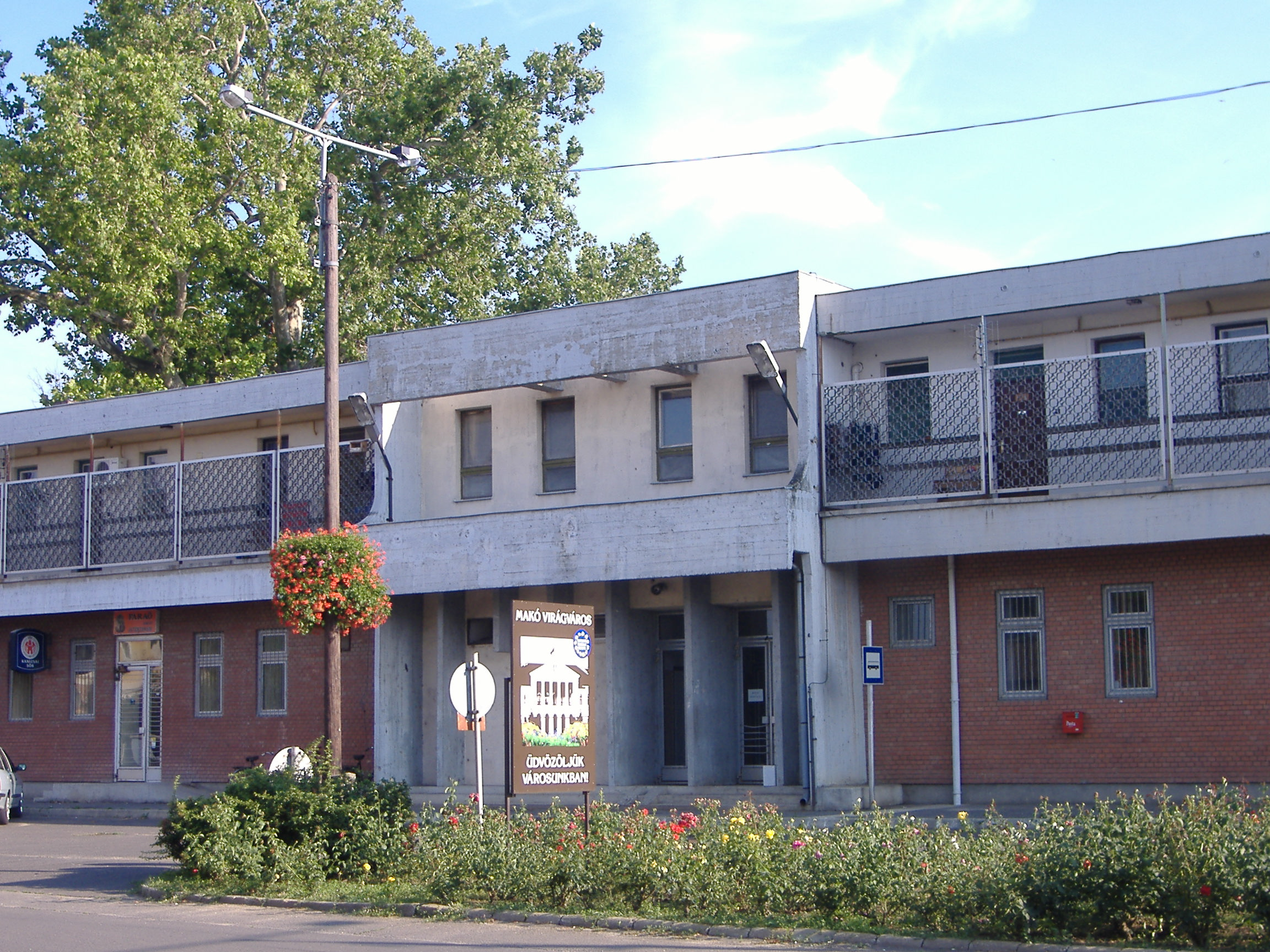 The view of the train station from the entry in Makó, Hungary